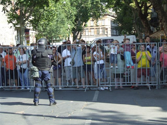 Gay pride in Budapest, 4th of July 2008 - protective fence